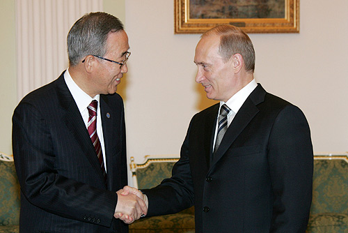 THE KREMLIN, MOSCOW. Vladimir Putin with UN Secretary General Ban Ki-moon.